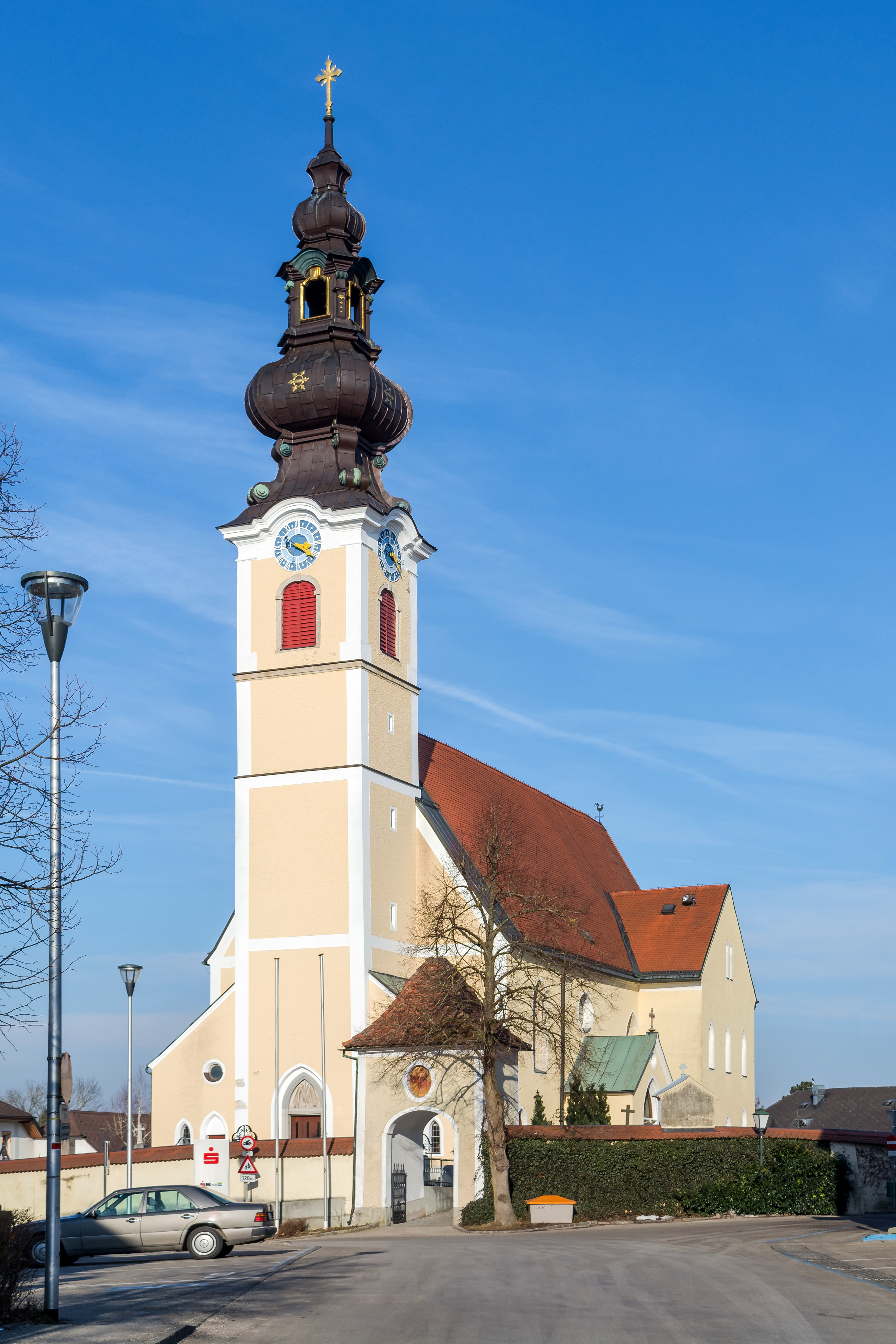 The catholic parish church of Gunskirchen was erected in the late gothic era. In 1775 it was modificated in baroque style.